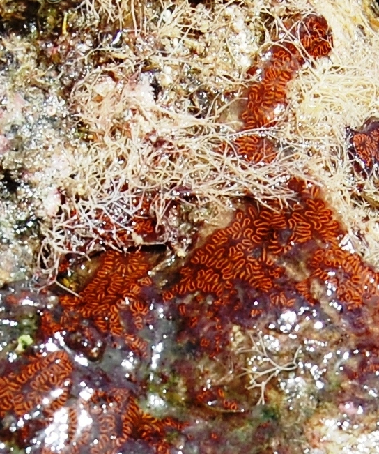 Botryllus leachii (Ascidiacea) Mediterranean Sea